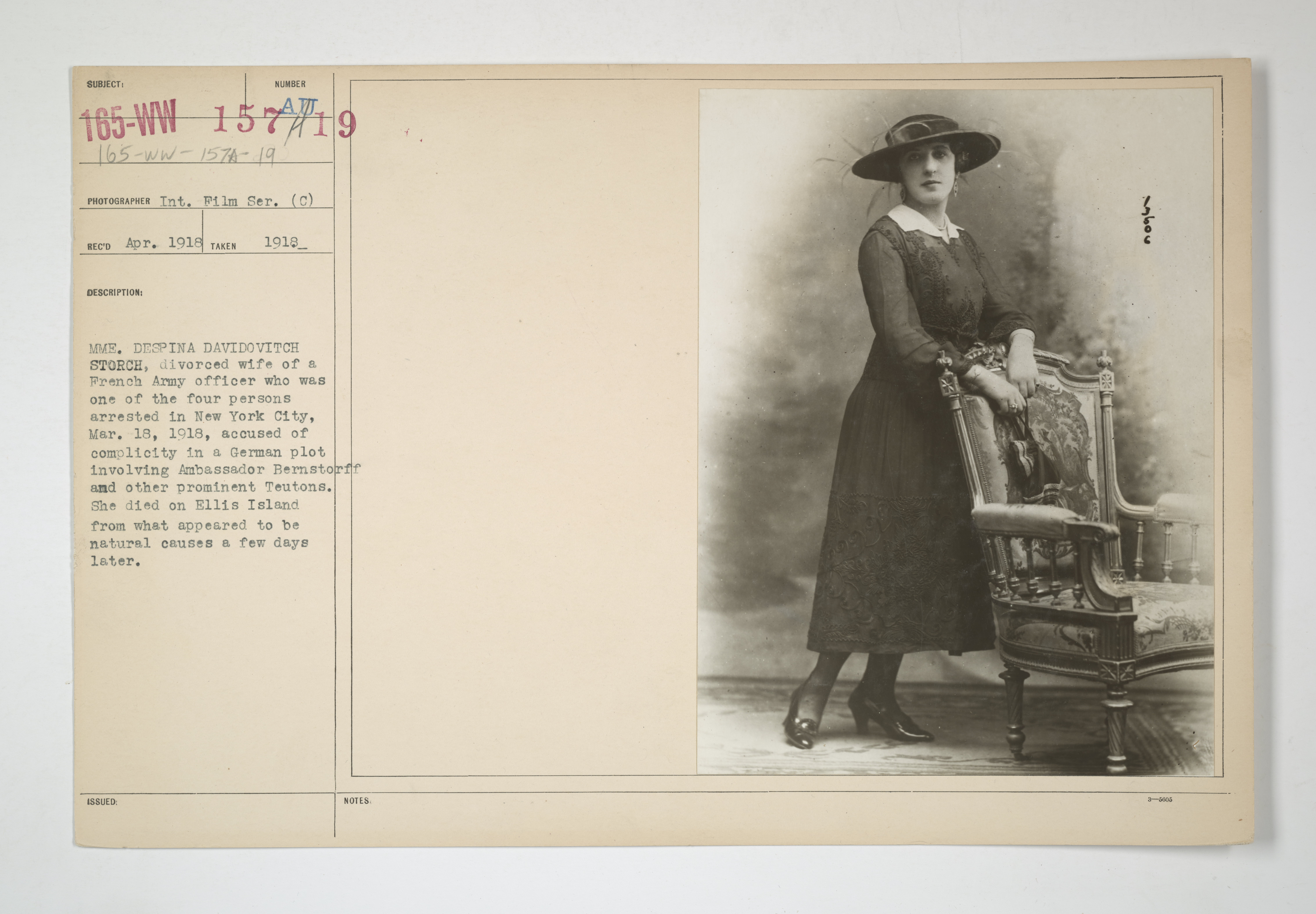 Scope and content: Original Caption: Mademoiselle Despina Davidovitch Storch, divorced wife of a French Army officer who was one of the four persons arrested in New York City, March 18, 1918, accused of complicity in a German plot involving Ambassador Bernstorff and other prominent Teutons. She died on Ellis Island from what appeared to be natural causes a few days later. Date Taken: 1918 Photographer: International Film Service